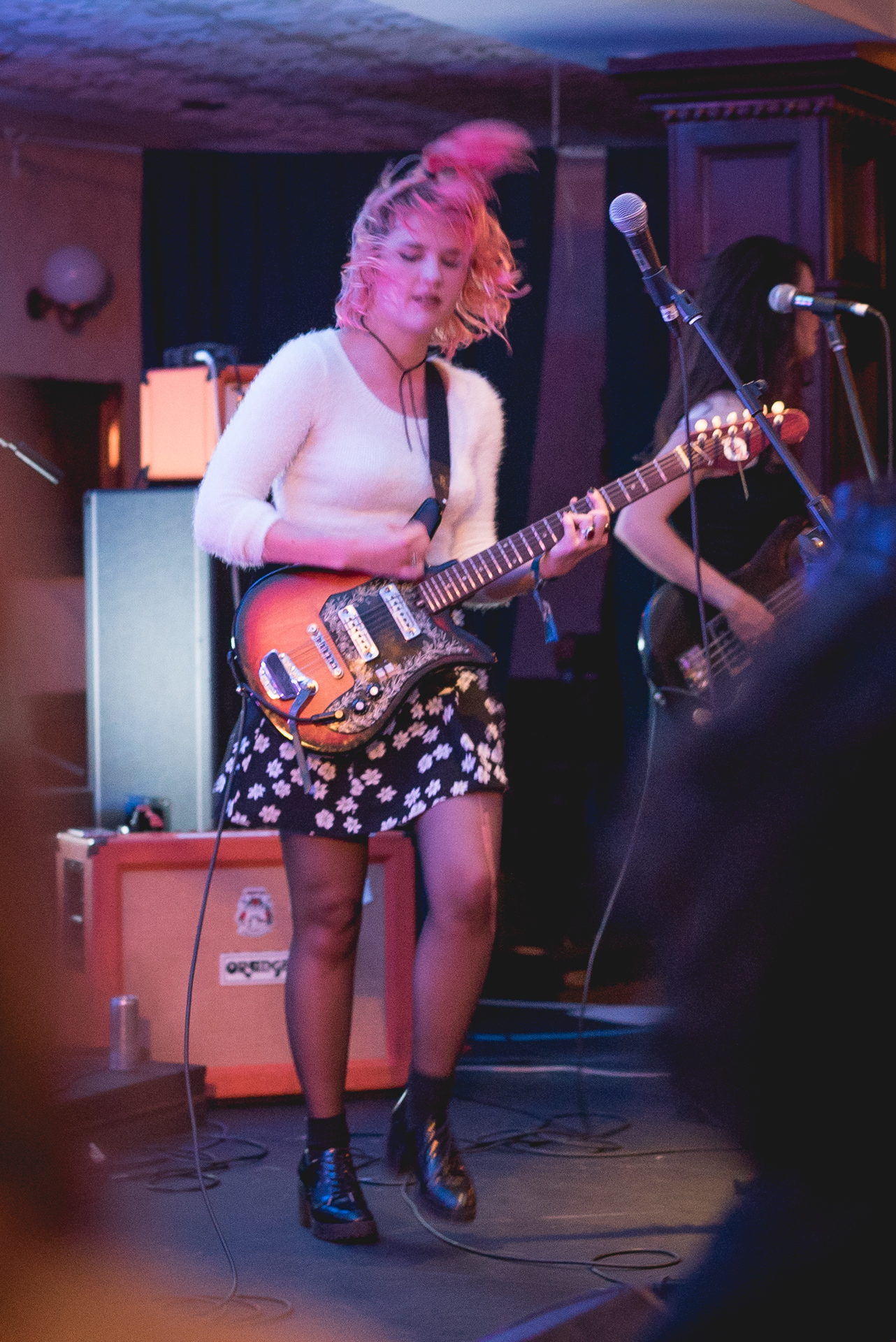 Jennifer Clavin of Bleached at The Great Escape in May 2016